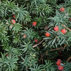 A close up of Taxus baccata 'Fastigiata' (fastigiate European Yew) leaves and arils. Photo by sannse, 31st August 2003